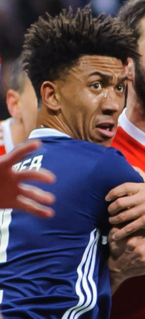 Scottish footballer Liam Palmer on 10 October 2019, during the 2020 UEFA European Championship qualifying match between Russia and Scotland in Moscow.